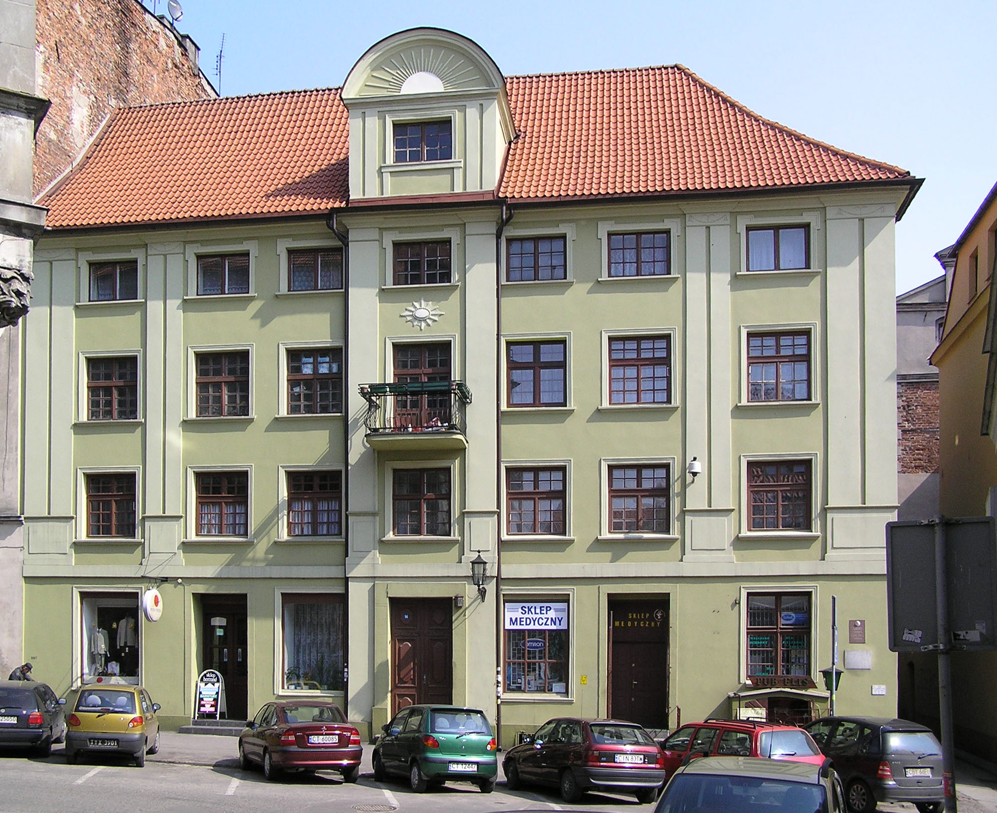 Toruń, house at 14 Mostowa Str. (former Fenger palace, dating back to 1742, rebuild in 1833).